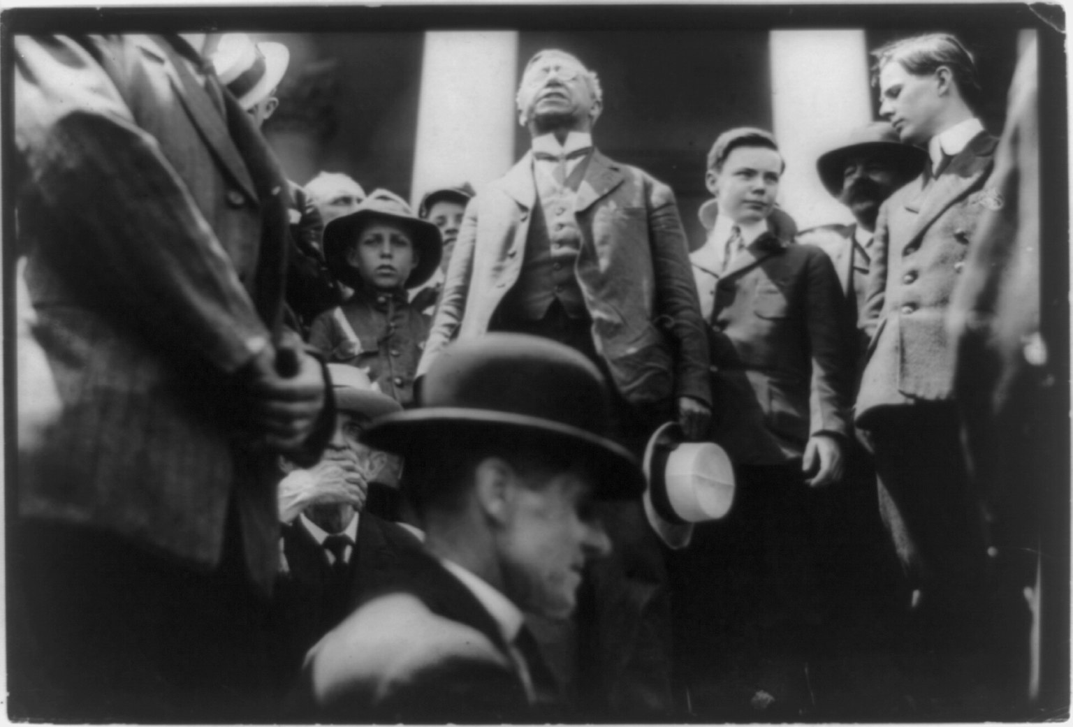 Title: Coxey's army, 1914 Abstract/medium: 1 photographic print.